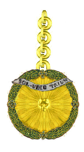 Orden der Sklavinnen der Tugend Order of the Slaves of Virtue